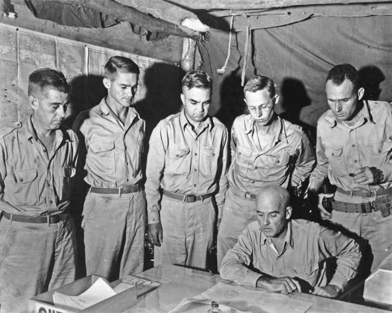 Meeting in Arawe depicting General Julian Cunningham (seated), standing left to right: unidentified, Lieutenant Colonel Clyde Everett Grant, Major D. M. McMains, Colonel A. M. Miller and Lieutenant Colonel Philip Lovell Hooper.